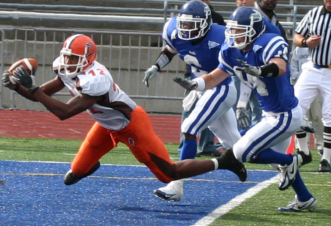 Steve Sanders, American football player, at Bowling Green State University (Ohio, USA), at time of photo